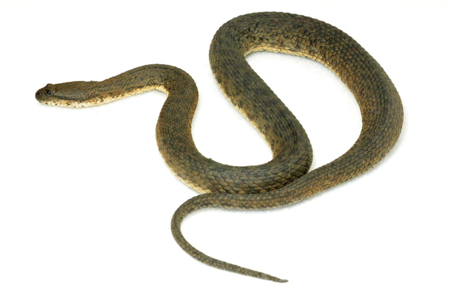 Cerberus schneiderii (uncataloged ACD specimen in PNM). Photo: ACD.